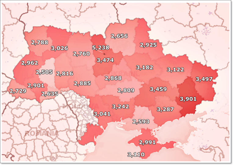 A map of Ukrainian oblasts and territories by average monthly salary (July, 2013) All figures are in the Ukrainian hryvnia.